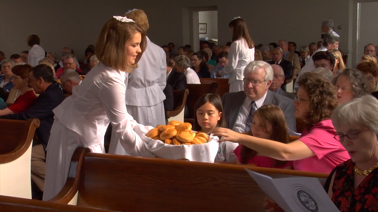 The image depicts a lovefeast being celebrated at Bethania Moravian Church in North Carolina.